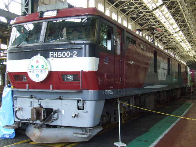 JR Freight EH500-2 at Omiya Works open day